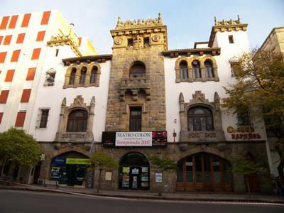 The Colón Theater in Mar del Plata, Argentina.